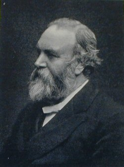 James Orr Profile